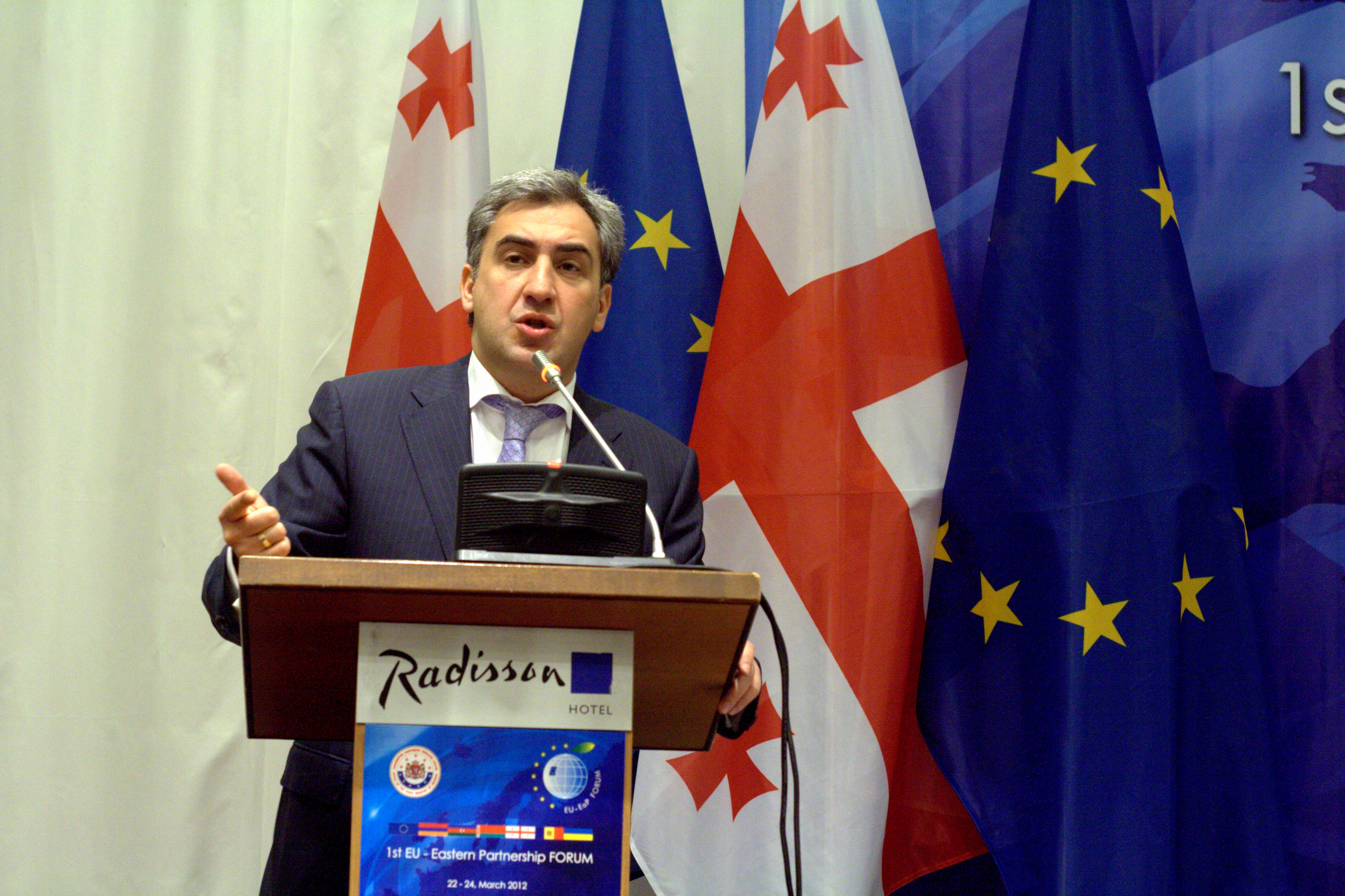 The 1st EU–Eastern Partnership forum. Tbilisi, 22-24 March 2012. Photo by Anna Woźniak.